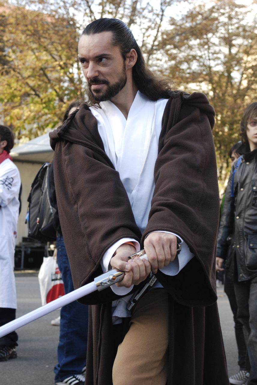 Fond of Star Wars playing the part of Qui-Gon Jinn.